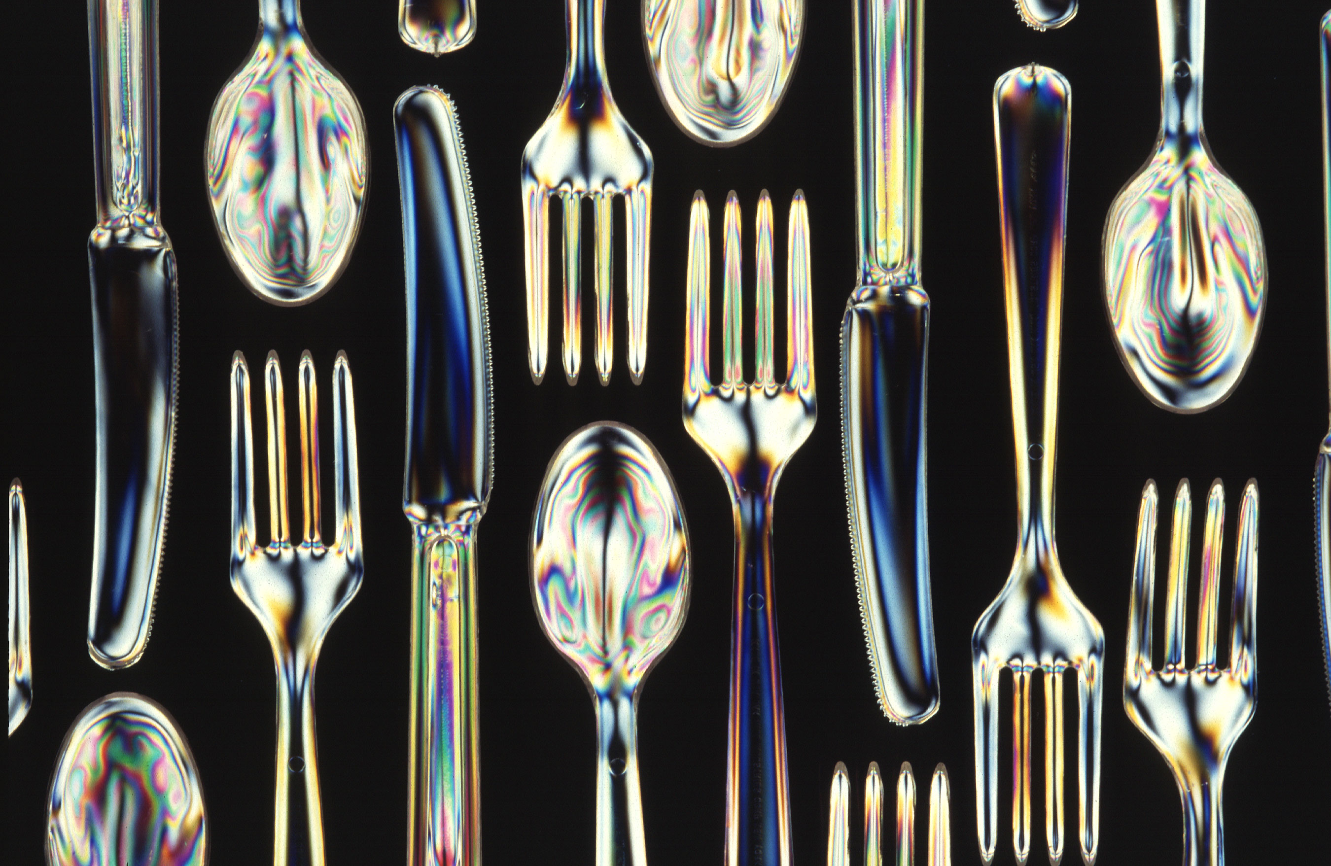 knives, forks, and spoons made from a biodegradable starch-polyester material